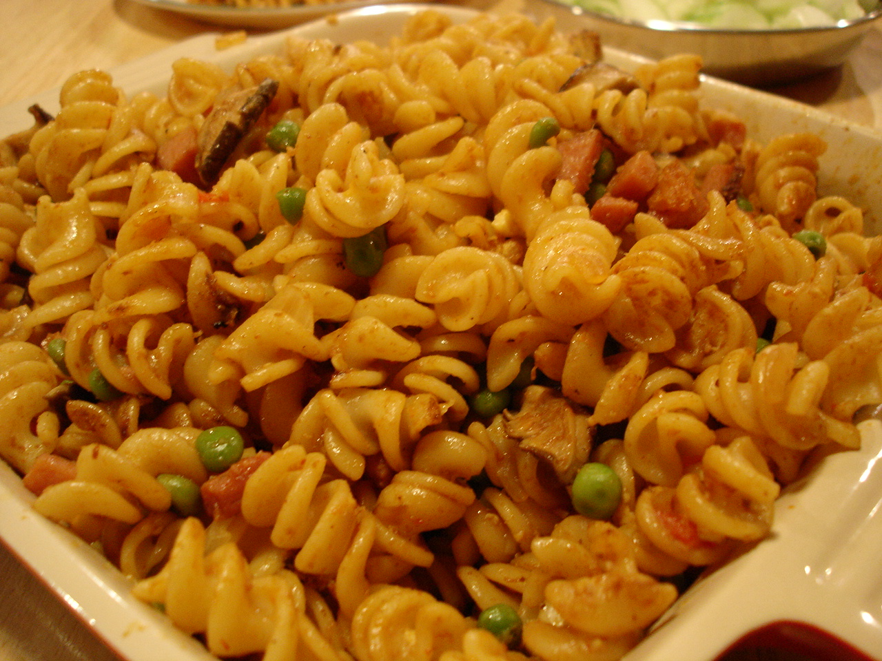 Spicy Indian style noodles made with fusilli.